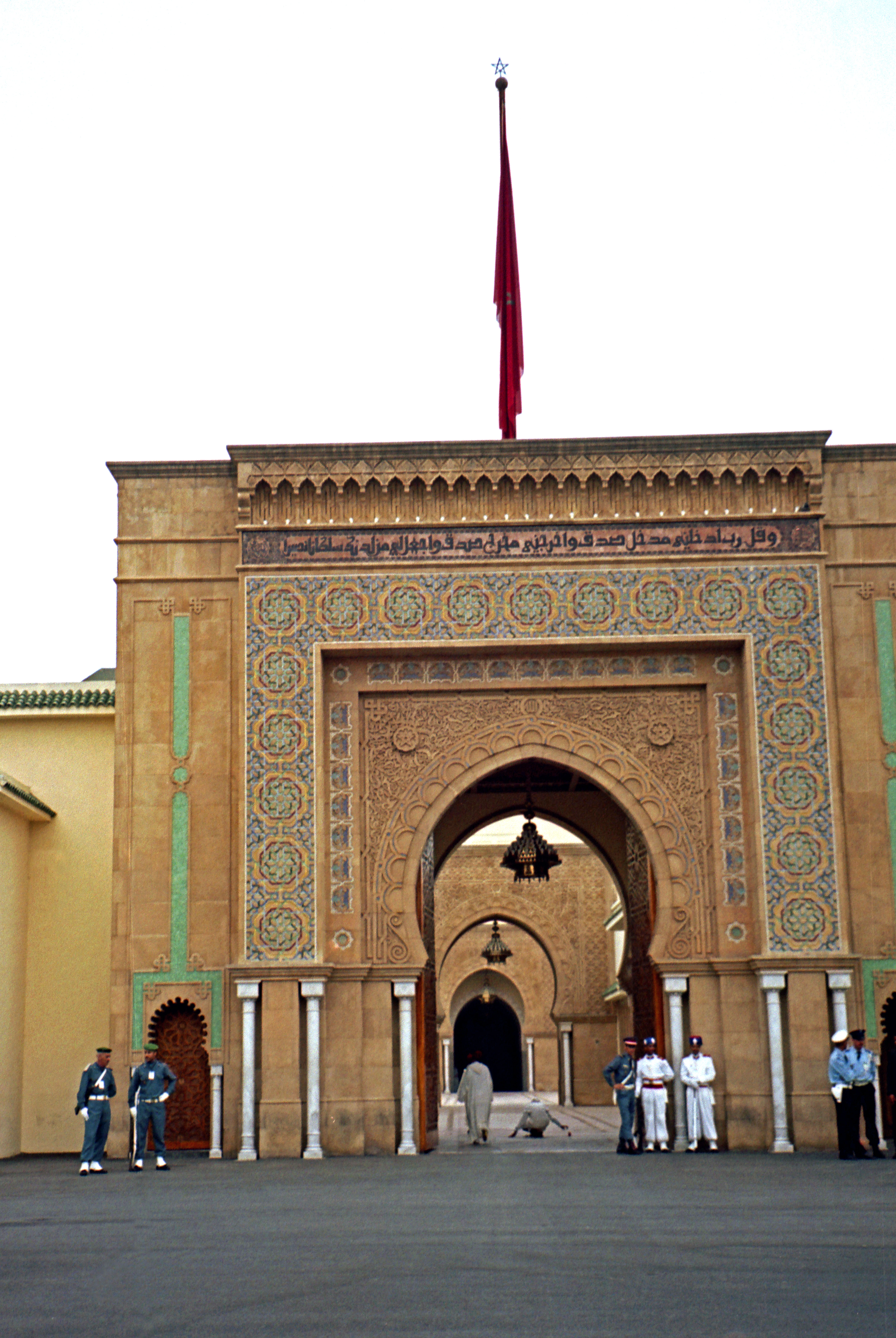 The Royal Palace lies in the heart of Rabat, and its area is open for viewing. As a matter of fact, you can get quite close to the real palace before the guards start to feel uneasy. But the real beauty is behind the walls. The Royal Palace construction of which began in 1864, is surrounded by a wall cut through by three gates. Rabat, Morocco